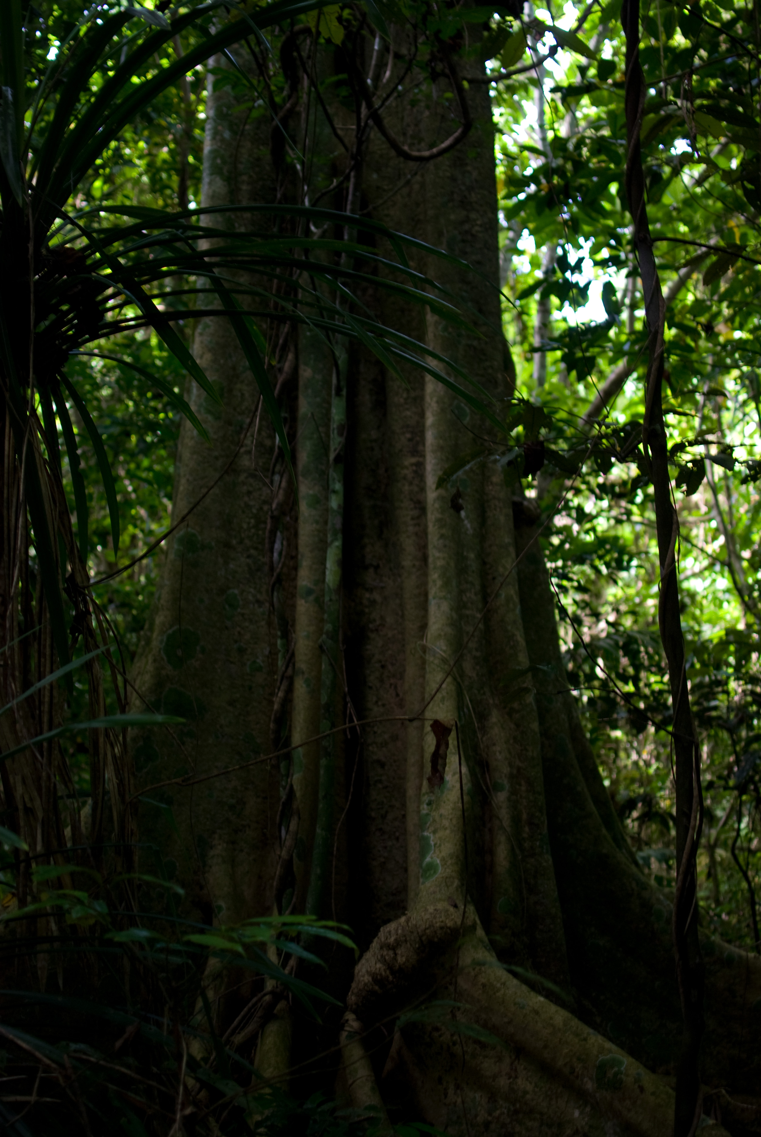 A Walk in the Jungle